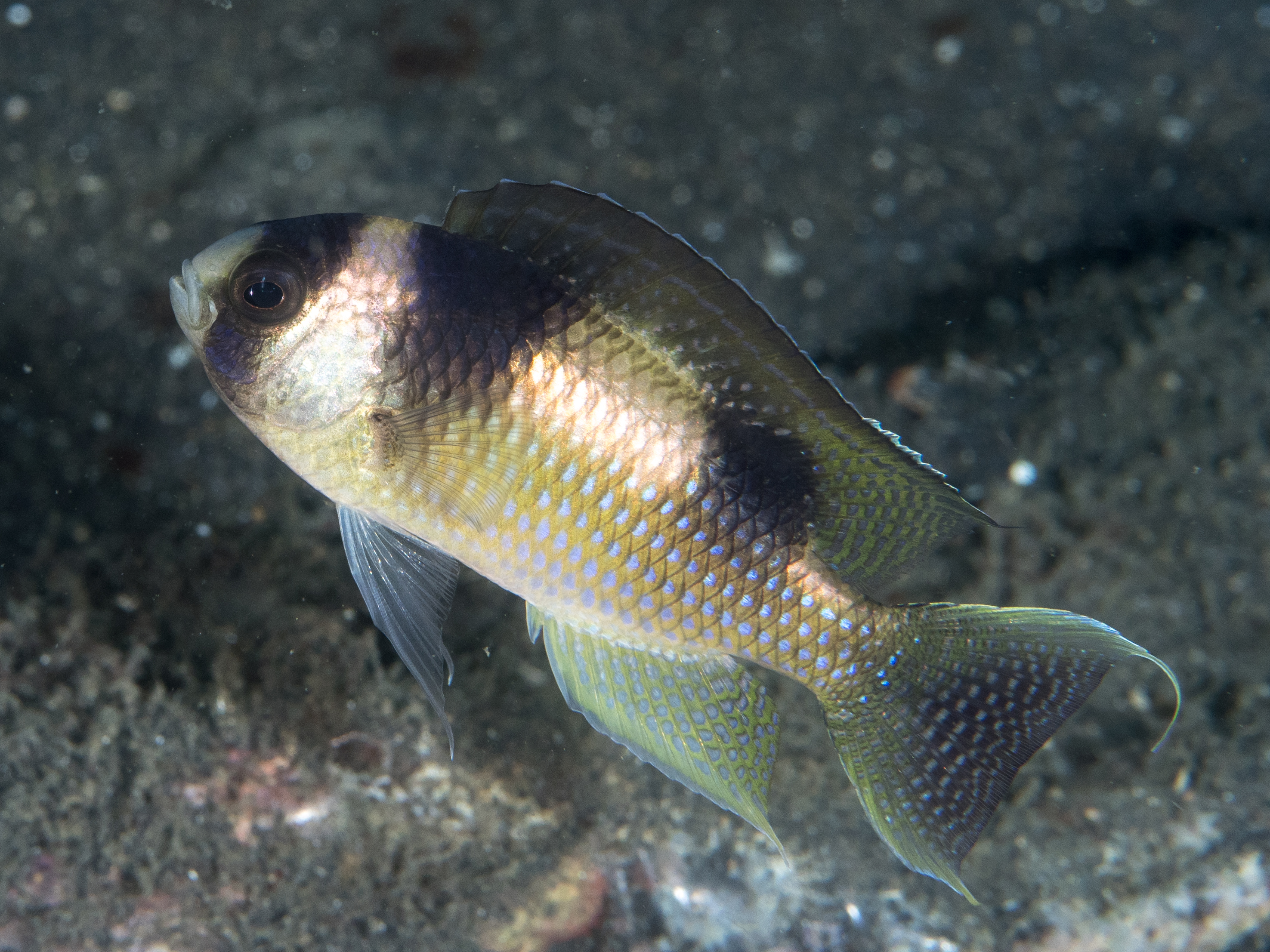 Lembeh, Indonesia - Black-banded demoiselle (Amblypomacentrus breviceps)